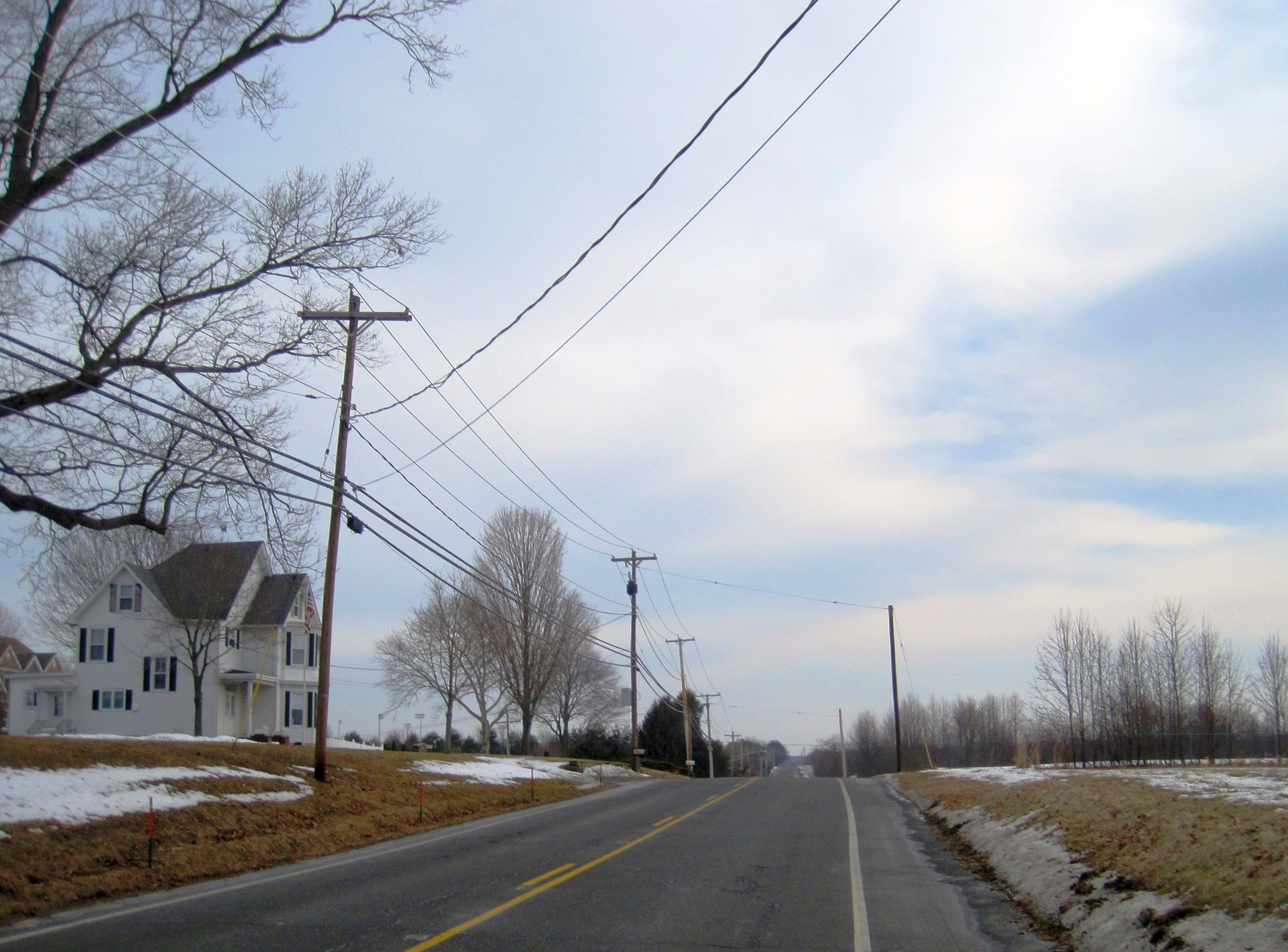 Photo of an unincorporated section of Millstone Township, New Jersey known as Fair Play. The photo was taken on eastbound Perrineville Road (County Route 1) approaching Fairplay Road.